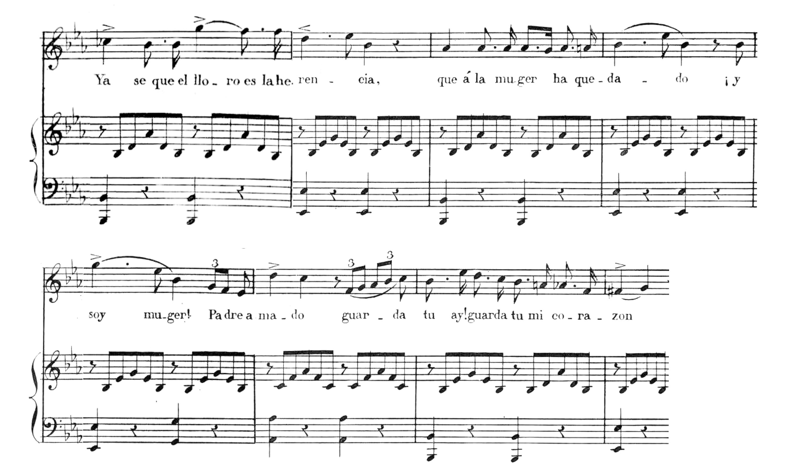 Estracto de Temores de la inocencia, melodía de Primeras Inspiraciones Musicales, por Paulina Cabrero.